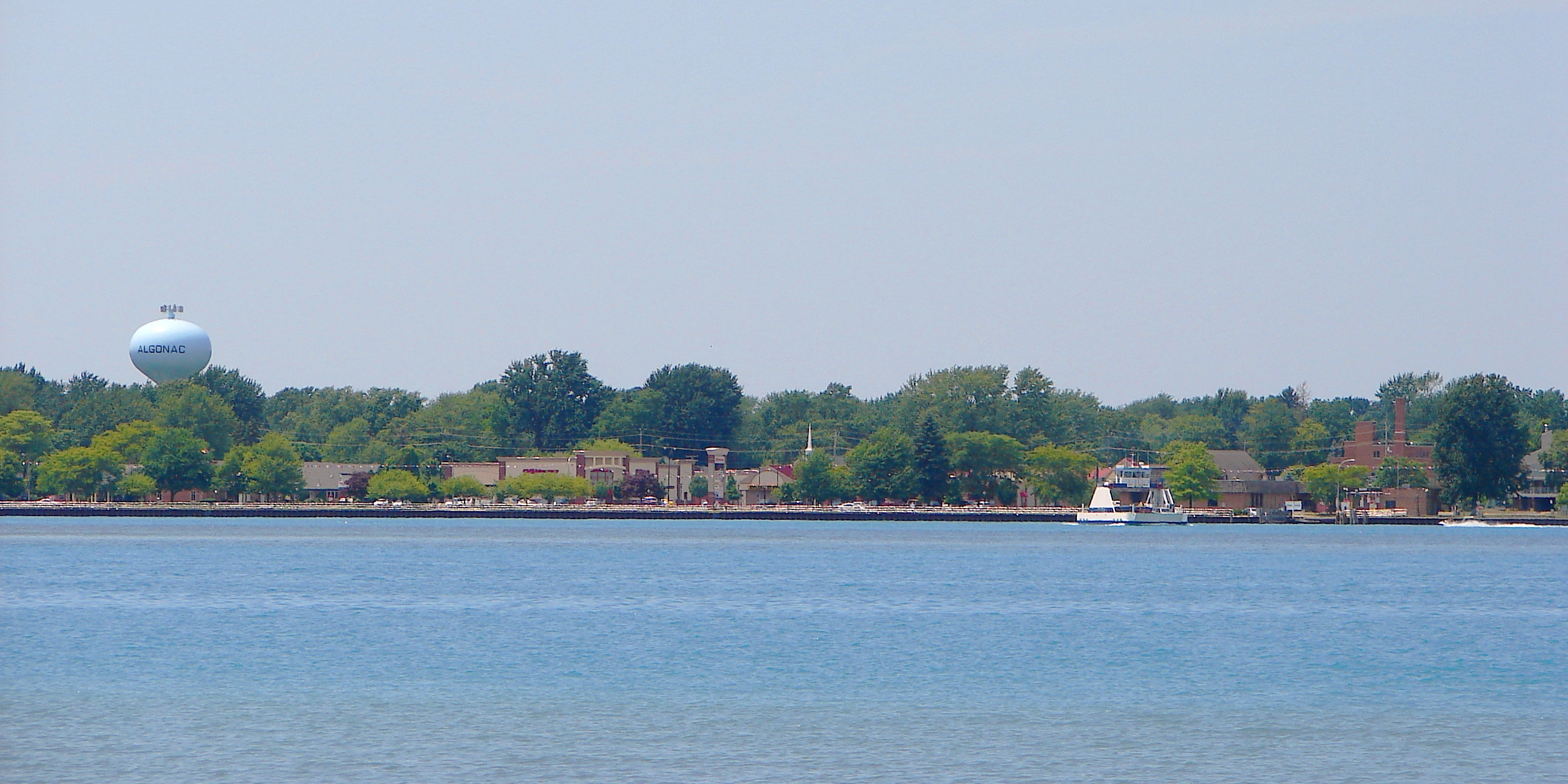 Skyline of Algonac as seen across the St. Clair River, St. Clair County, Michigan, USA